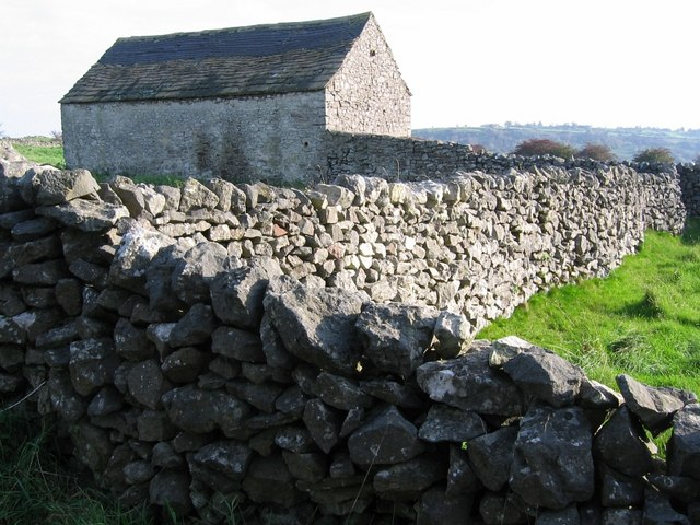 Field barn Barn and dry stone walls built with the local limestone.